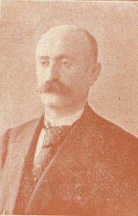 Retheos Berberian, Armenian educator and writer (original caption: Master of teachers R. H. Berberian, Author of “Men and Objects”, “Words of an educator” and “Thoughts and Memories”, etc.)